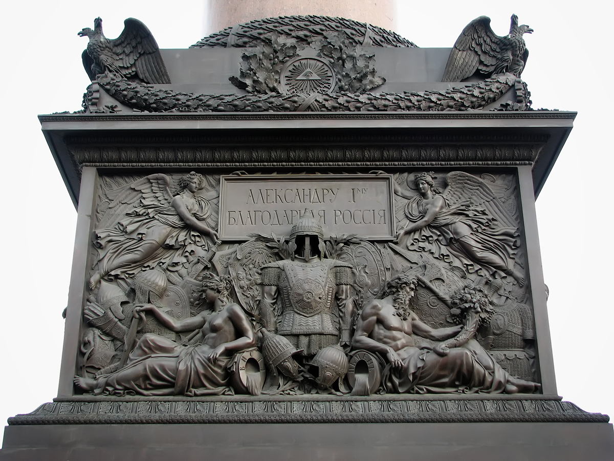 The Alexander Column on Palace Square in Saint Petersburg, detail of base, bas-relief sculpture